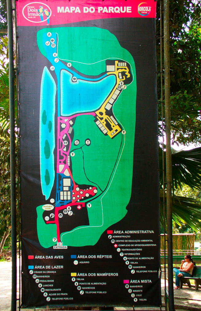 Parque Dois Irmãos is a park, zoo and botanical garden located in Recife, Brazil. Details: Parque Dois Irmãos